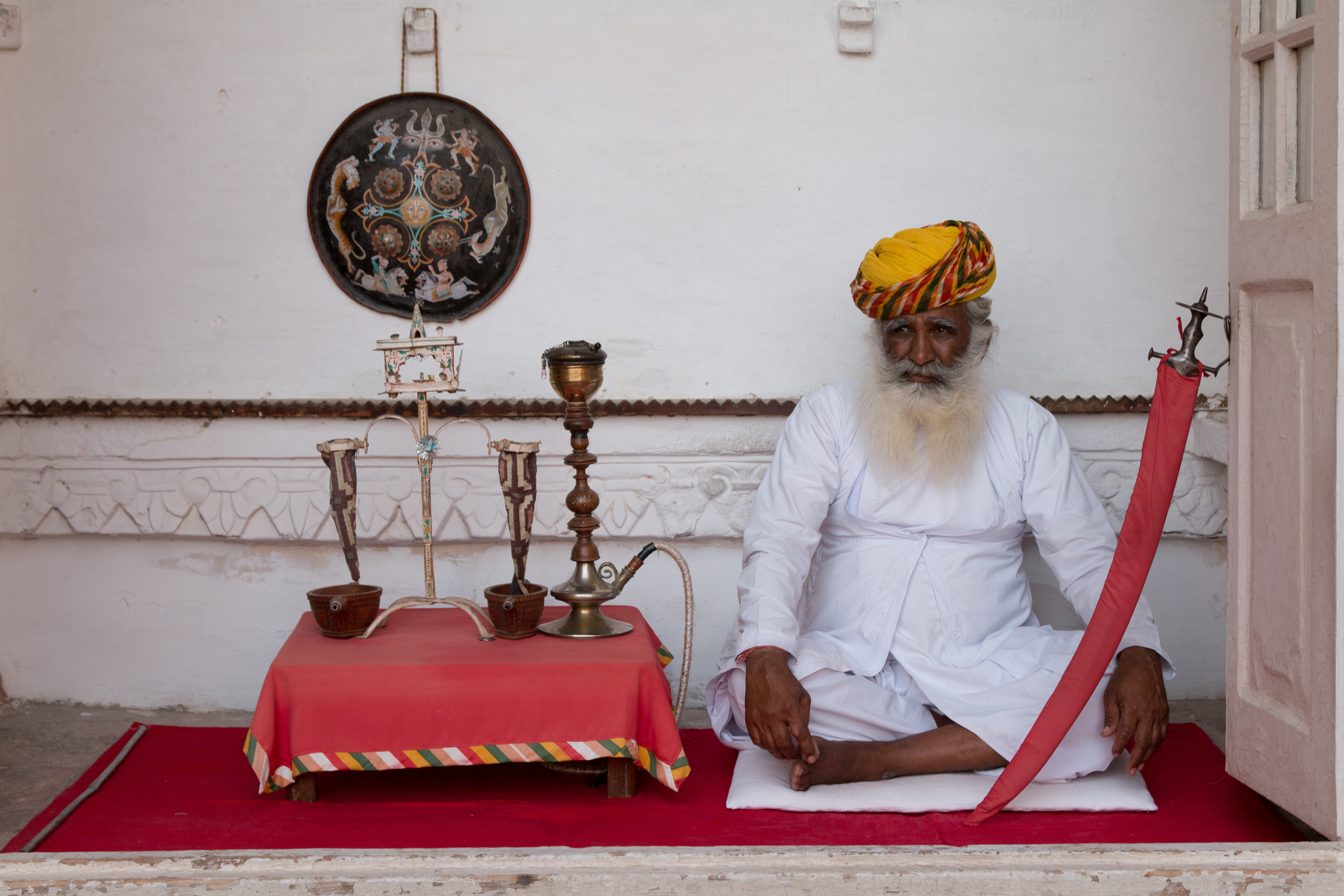 Old maharaja guard, allowed to stay in the yard of Daulat Khanat,, in recognition of past services.